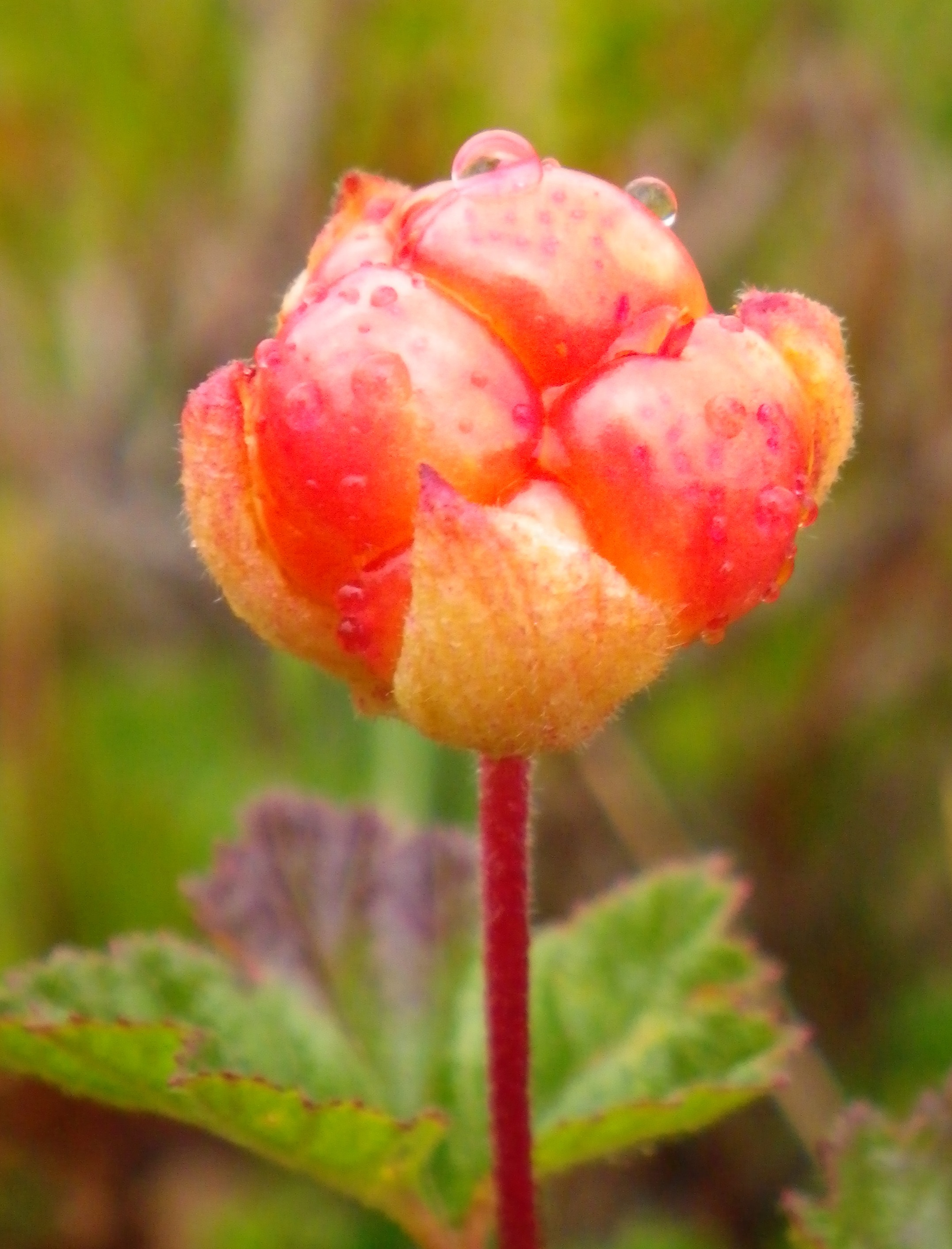 Rubus chamaemorus